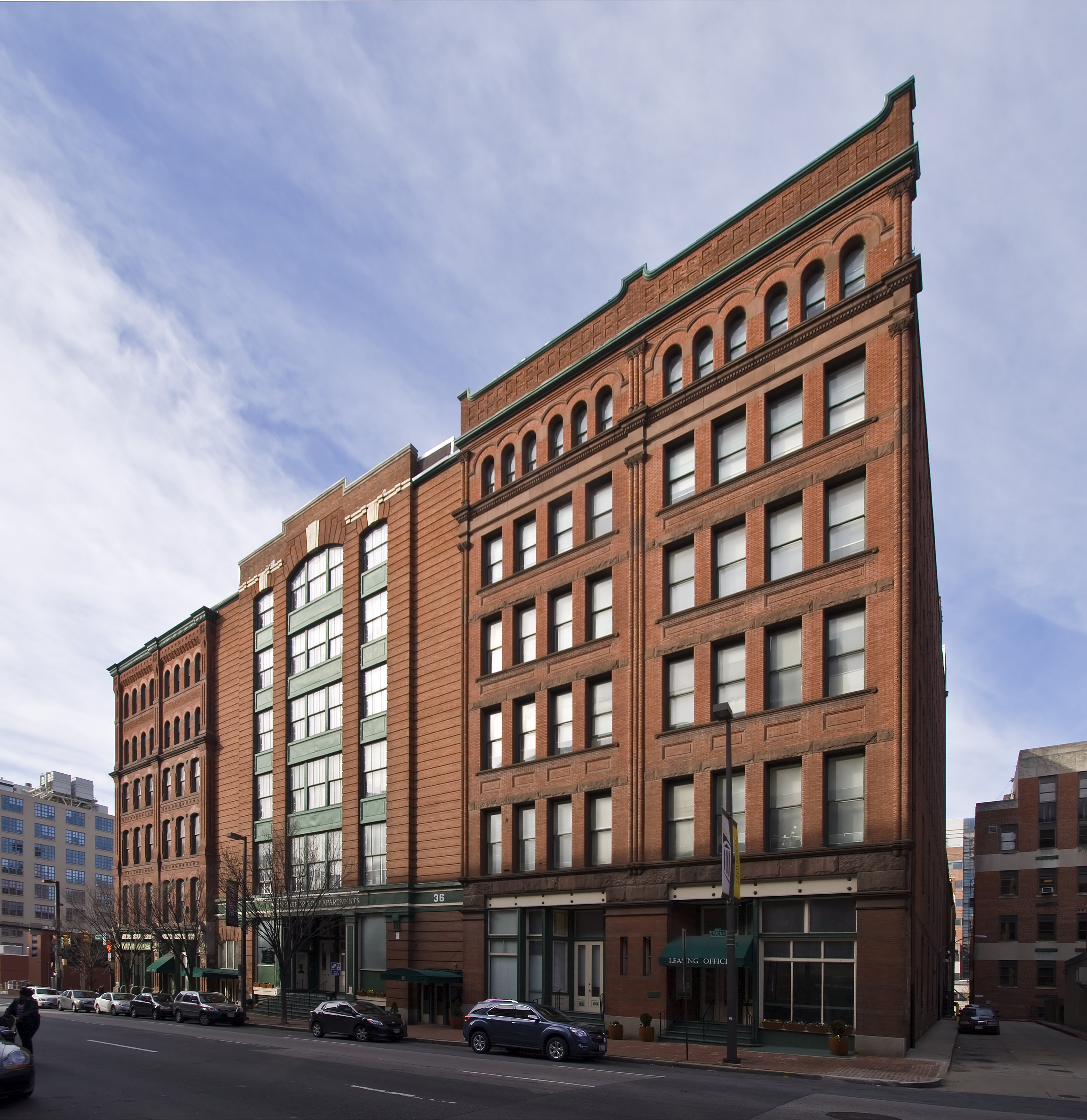 Heiser, Rosenfeld and Strauss Buildings, 32-34, 36-38, 40-42 South Paca Street, Baltimore, Maryland USA